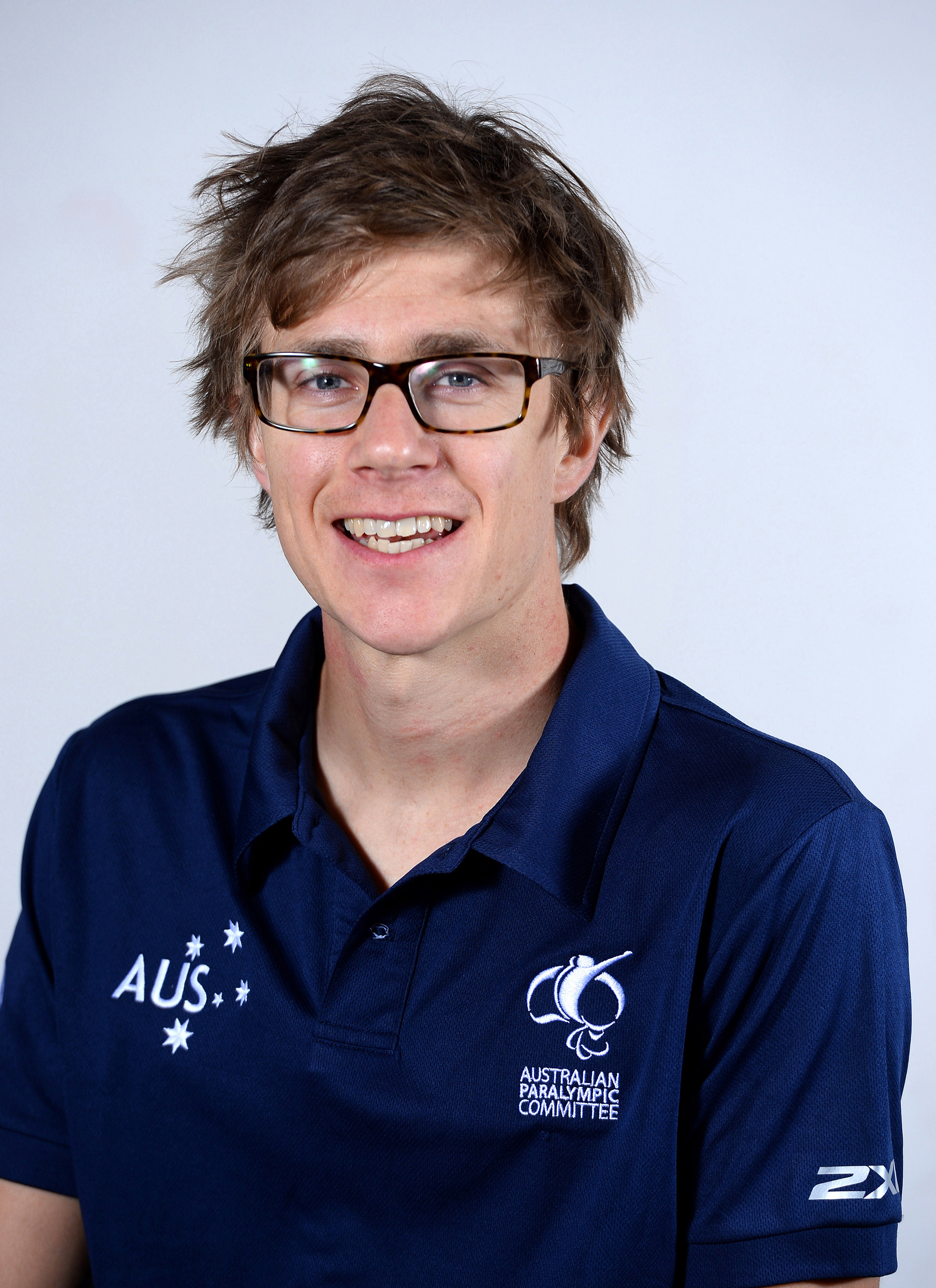 Portrait photograph of Sam McIntosh taken at team processing session for shadow members of 2016 Australian Paralympic team